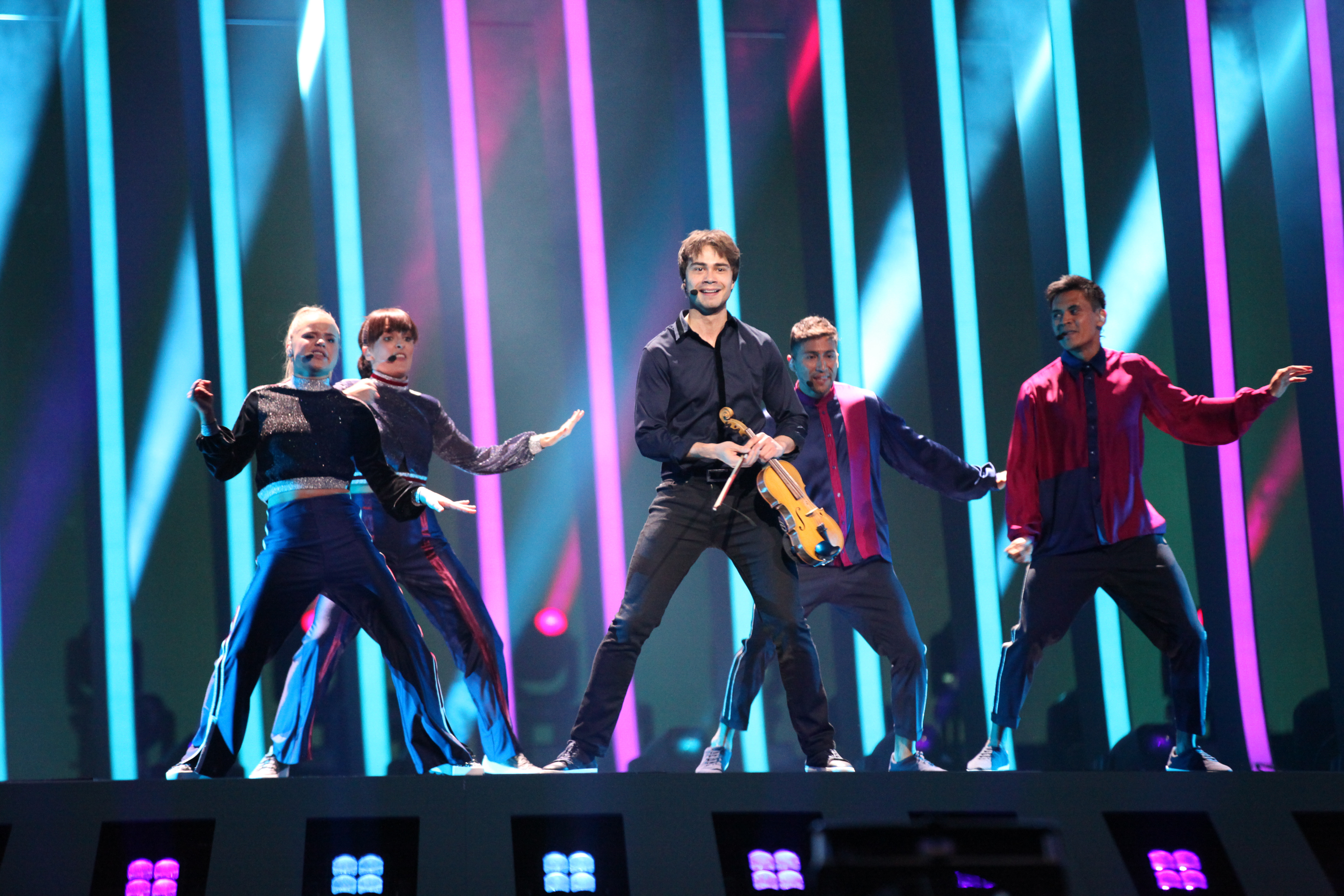 Alexander Rybak representing Norway with the song "That’s How You Write a Song" during a rehearsal before the second semi final of the Eurovision Song Contest 2018 in Lisbon.